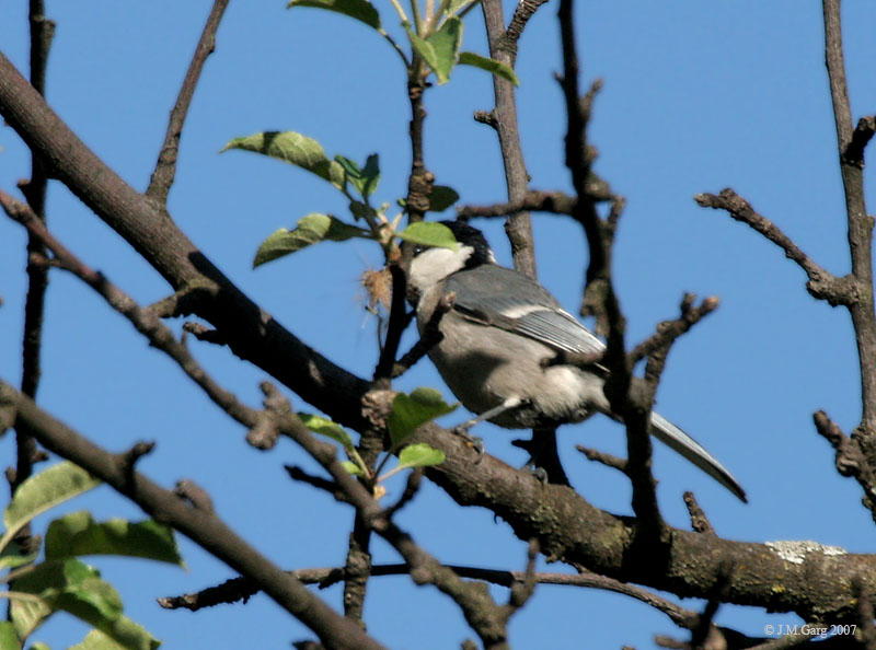 Cinereous Tit Parus cinereus in Kullu District of Himachal Pradesh, India.